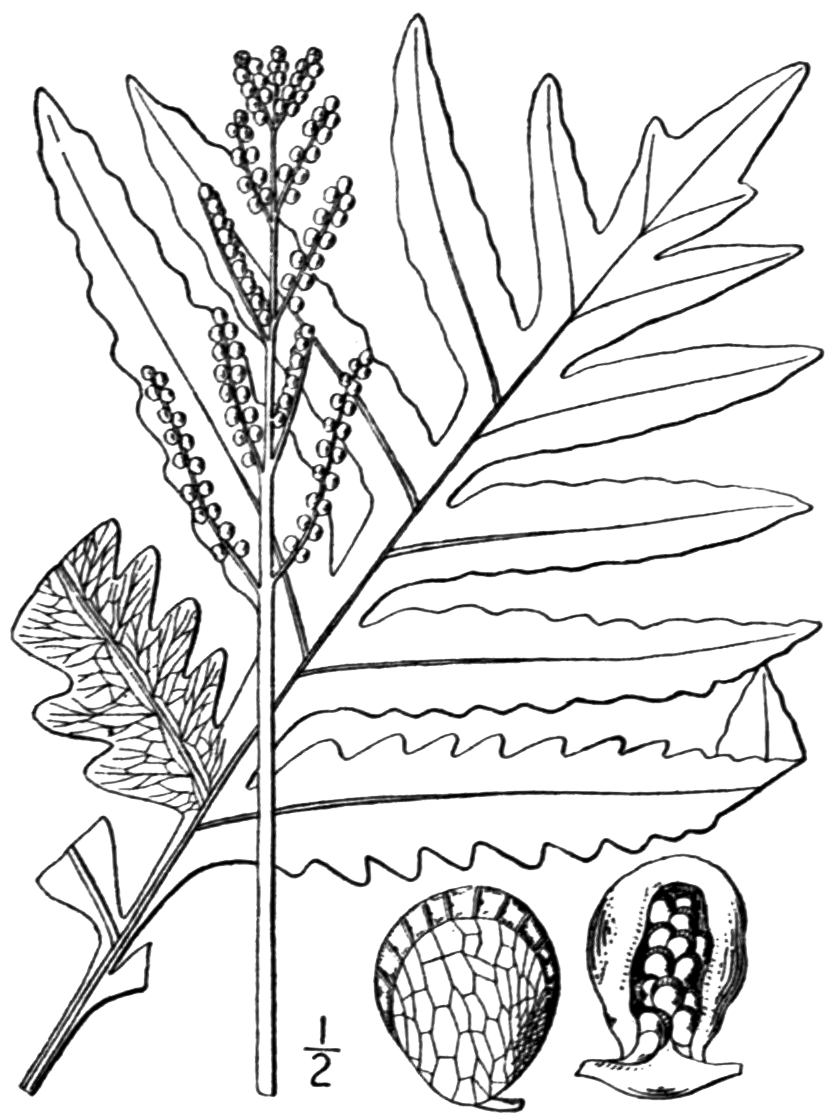 Fig. 21. Onoclea sensibilis from the second edition of An Illustrated Flora of the Northern United States, Canada and the British Possessions (New York, 1913)